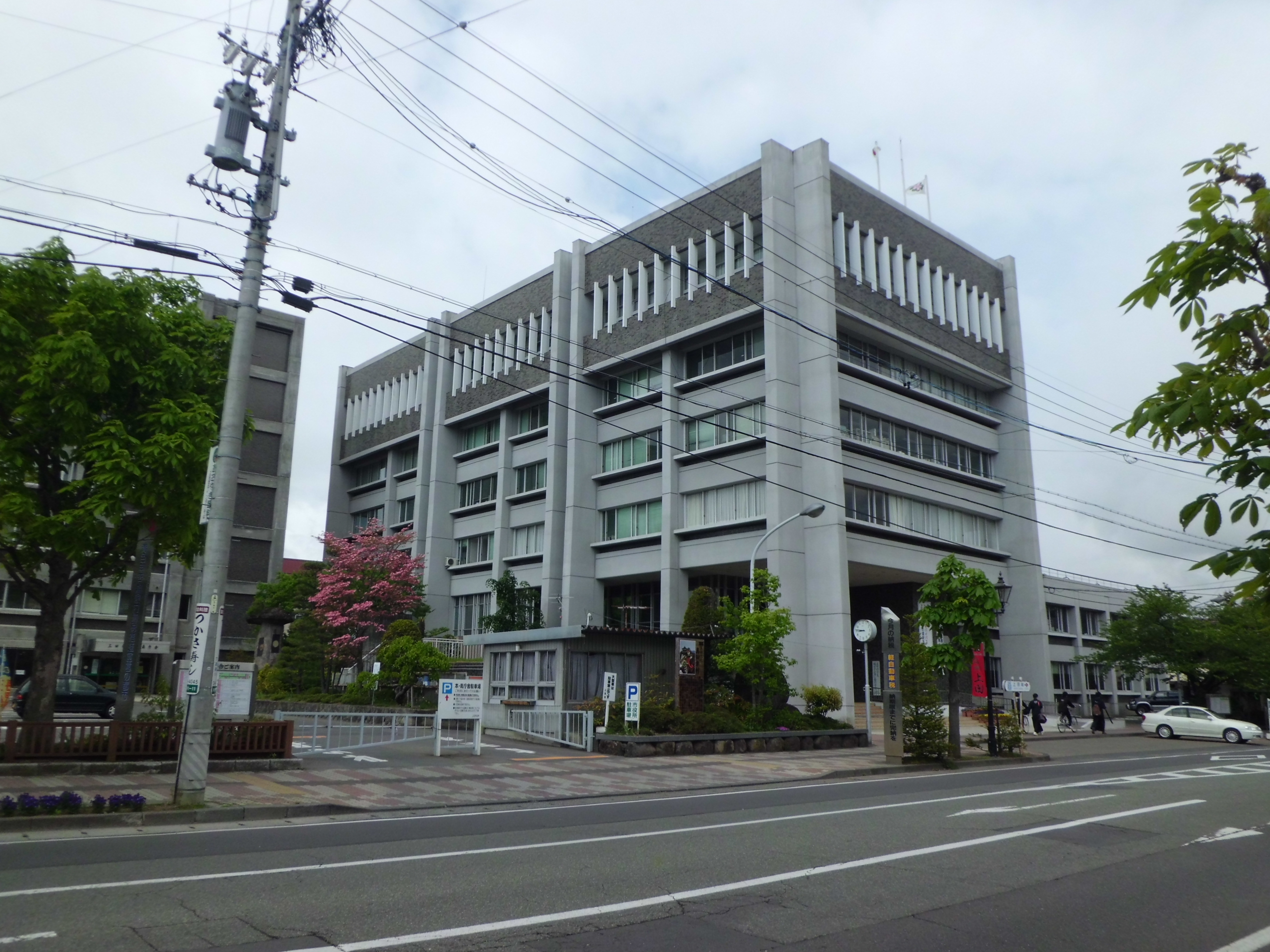 Main office of Ueda City Hall in Nagano prefecture, Japan.